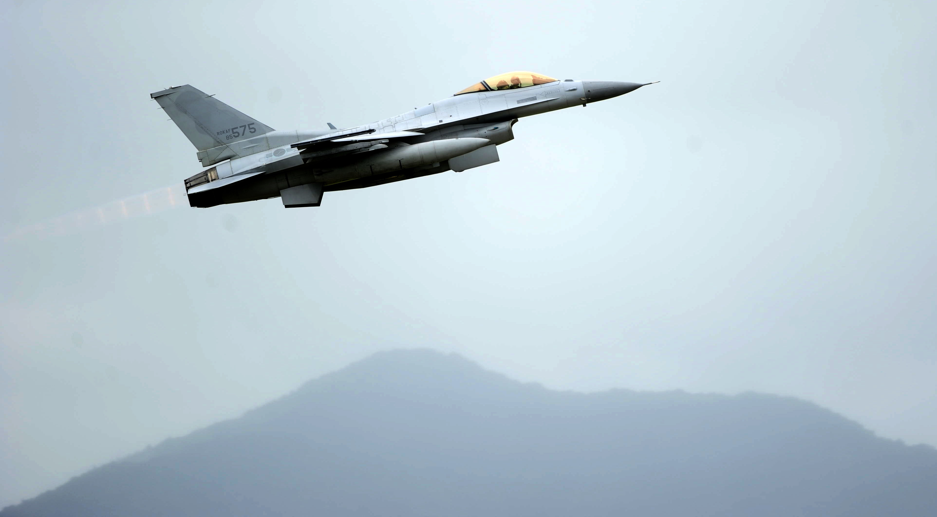 A KF-16 Fighting Falcon from the 19th Fighter Wing takes off at Jungwon Air Base, Republic of Korea, during Buddy Wing 15-6, July 8, 2015. In an effort to enhance U.S. and ROKAF air combat capability, Buddy Wing exercises are conducted multiple times throughout the year on the peninsula to sharpen interoperability between the allied forces so that if need be, they are always ready to fight as a combined force. (U.S. Air Force photo by Staff Sgt. Nick Wilson/Released)